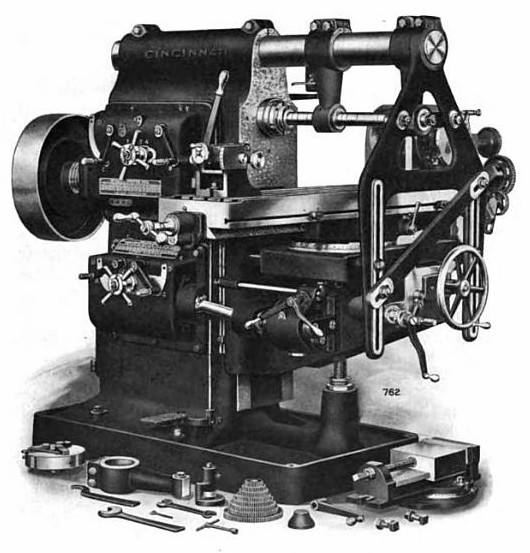 A typical milling machine of the 1900-1920 era. This is a horizontal -spindle universal miller built by the Cincinnati Milling Machine Company of Cincinnati, Ohio, USA.